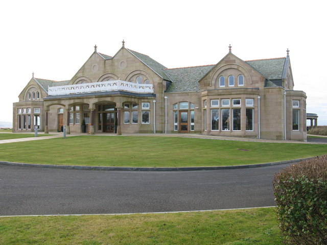 Royal Troon Old Course Clubhouse A history of the course and clubhouse can be found in